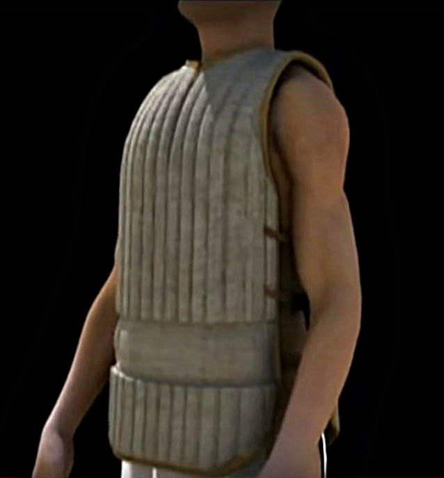 The first life jacket ever invented.